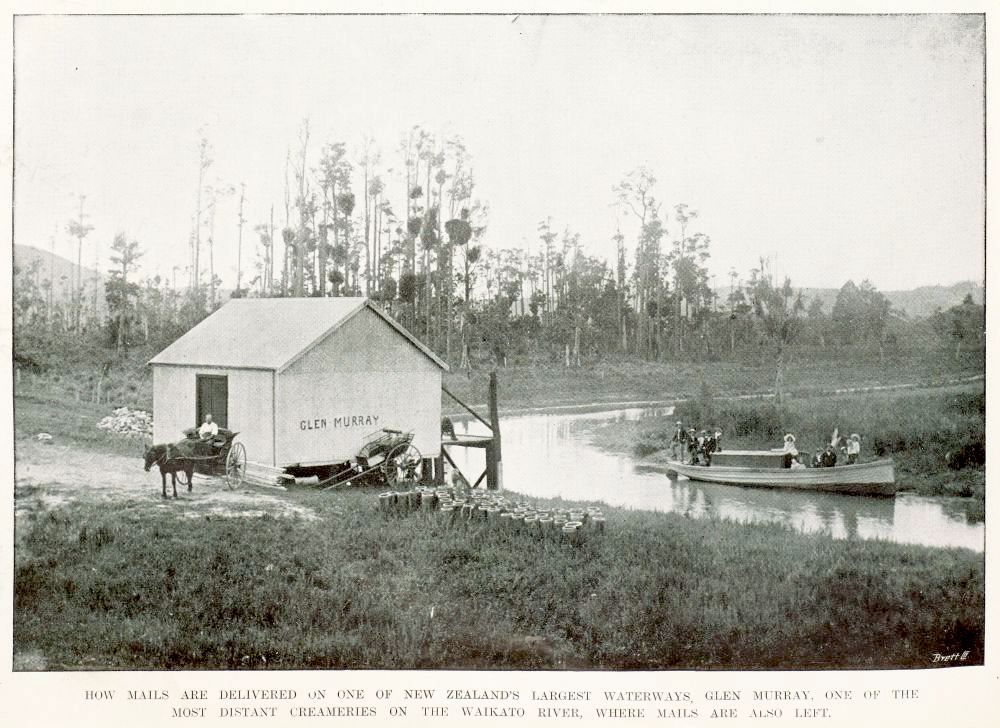 One of the most distant creameries on the Waikato River, where mails are also left